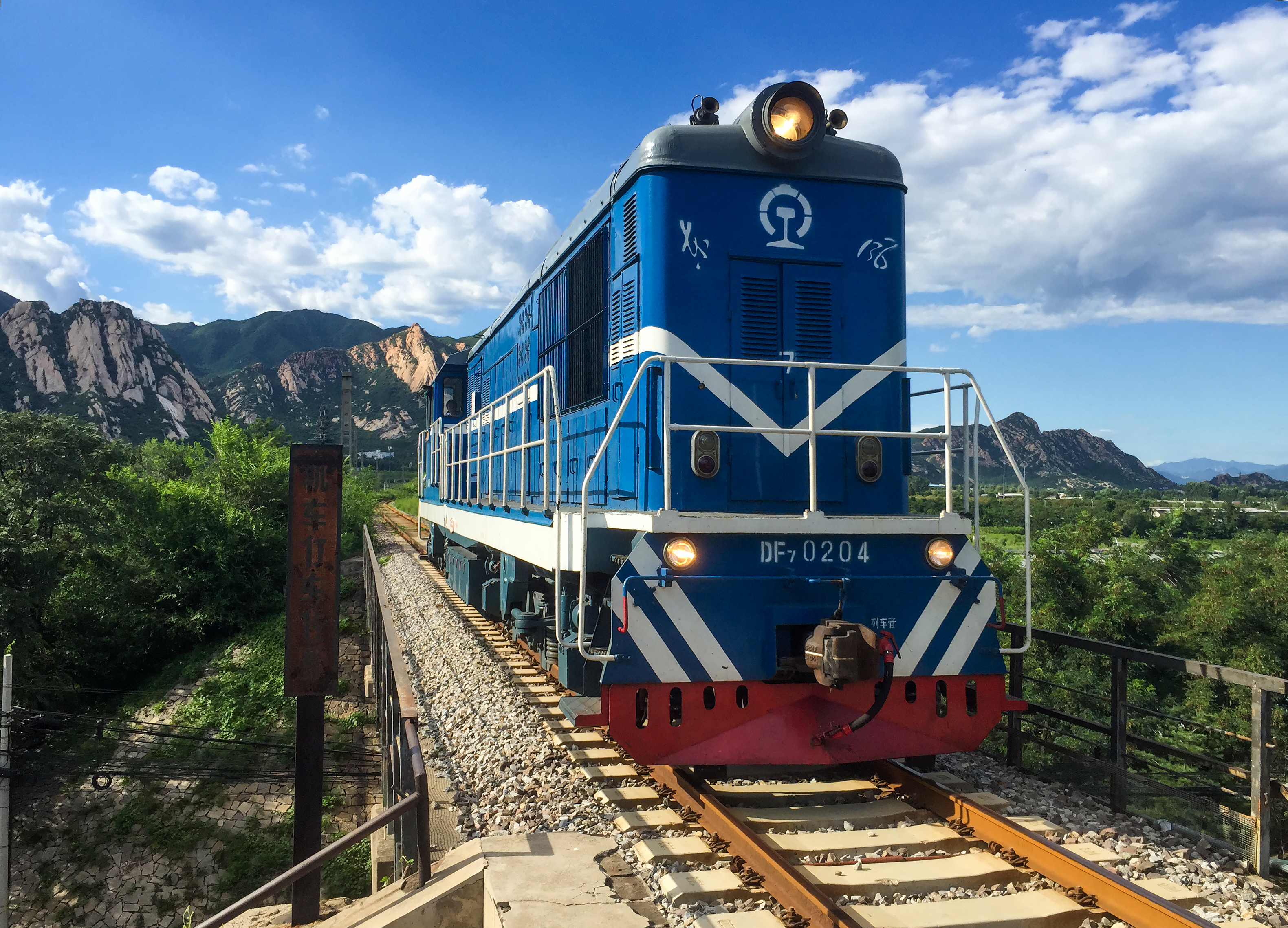 Suddenly this DF7 came, passing this viaduct halt like a phoenix.